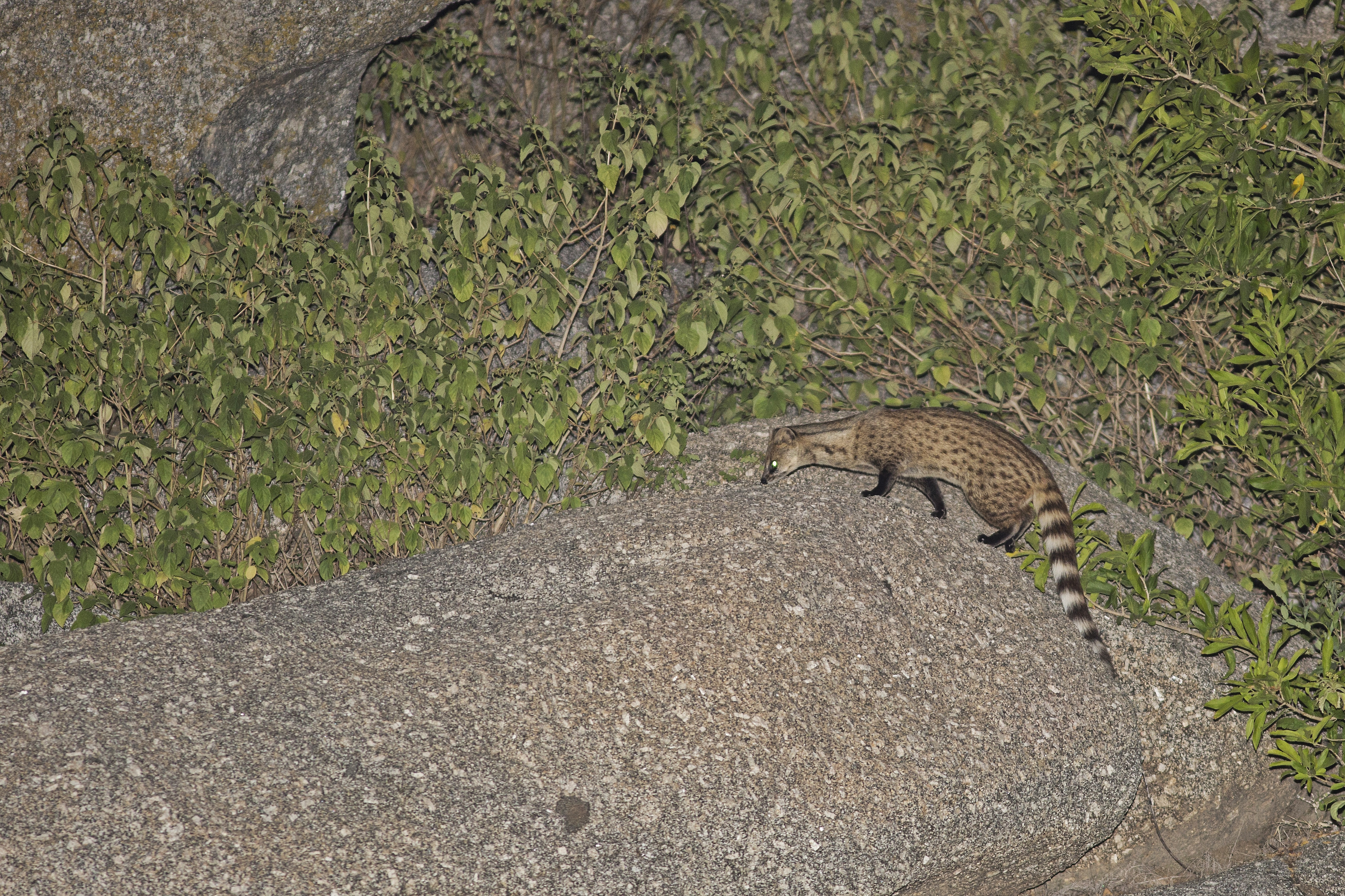 Image was clicked at Ratanmahal sloth bear sanctuary, Dahod, Gujarat, India